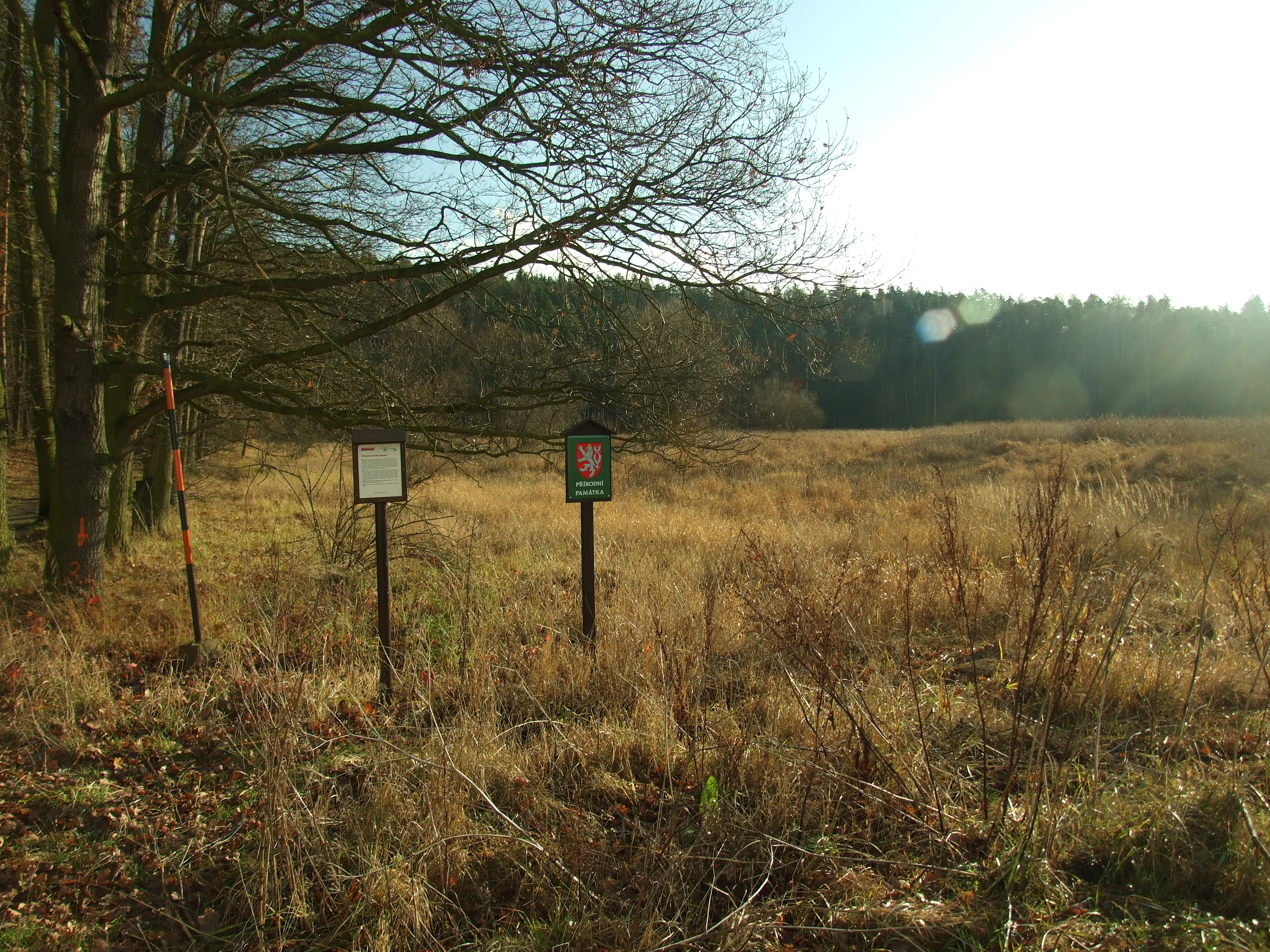 Natural monument Kalspot near Kamenné Žehrovice-Turyň, Central Bohemian Region, CZ help